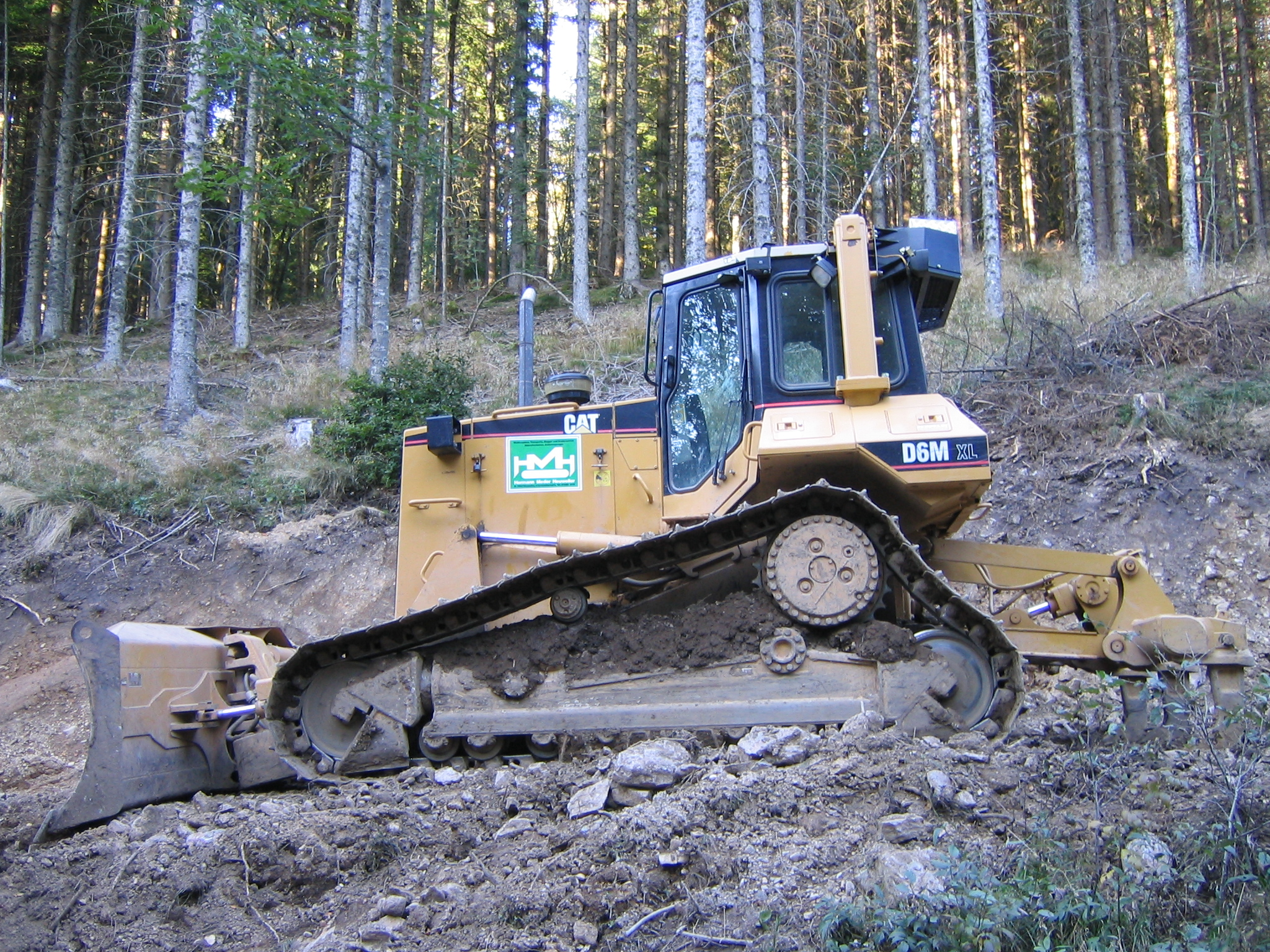 CATERPILLAR CAT D6M XL bulldozer on a forest trail.